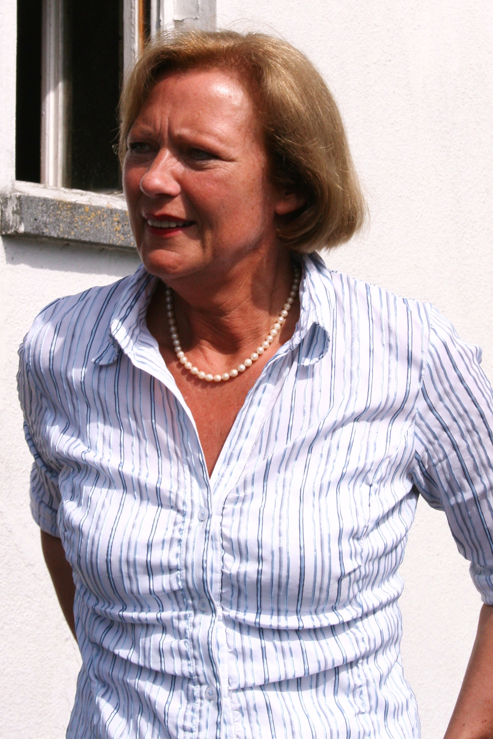 Monika Brunert-Jetter in Bad Laasphe-Hesselbach. Personality rights warningAlthough this work is freely licensed or in the public domain, the person(s) shown may have rights that legally restrict certain re-uses unless those depicted consent to such uses. In these cases, a model release or other evidence of consent could protect you from infringement claims.